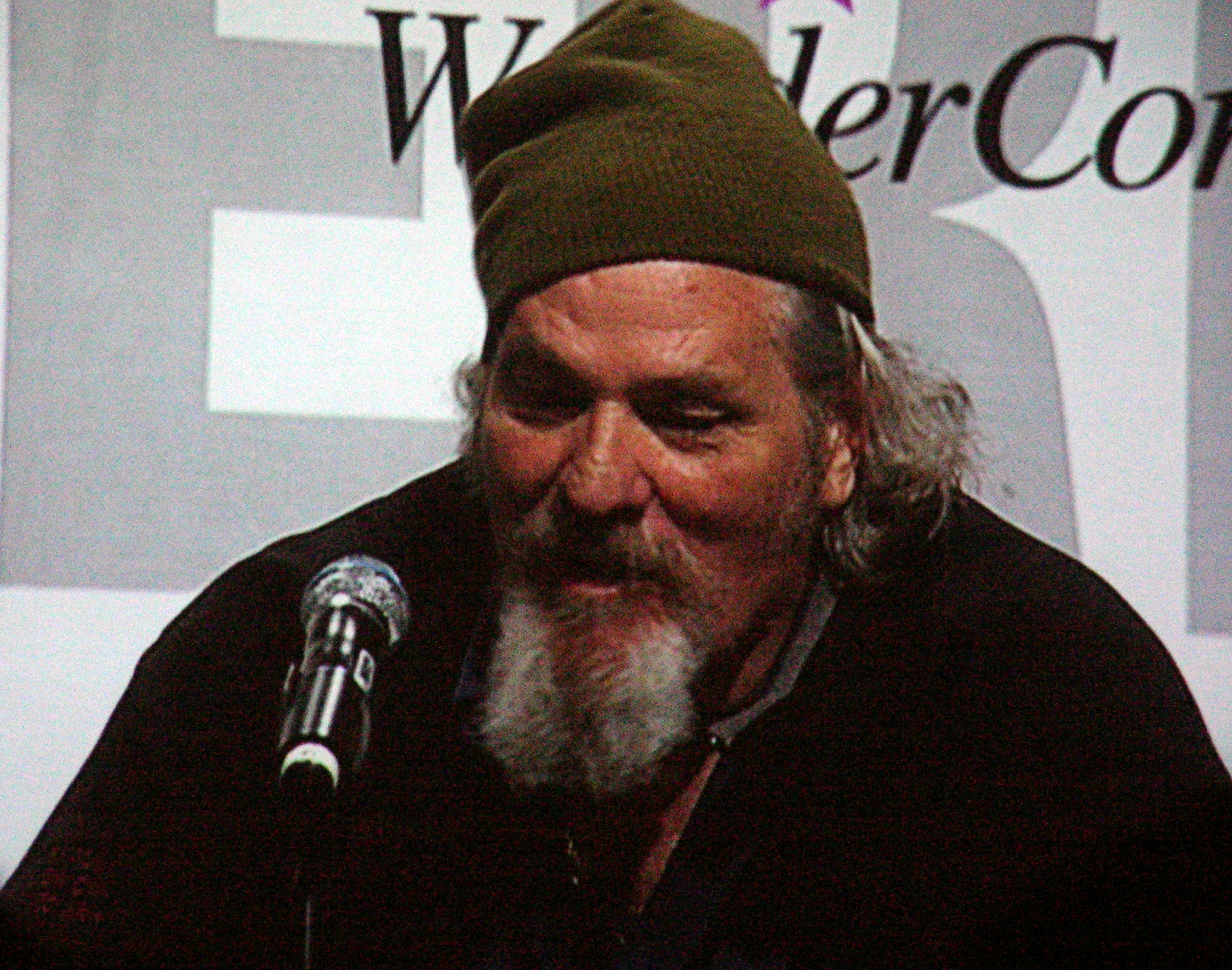 Actor M. C. Gainey participating in a panel on the TV series Happy Town at WonderCon 2010.